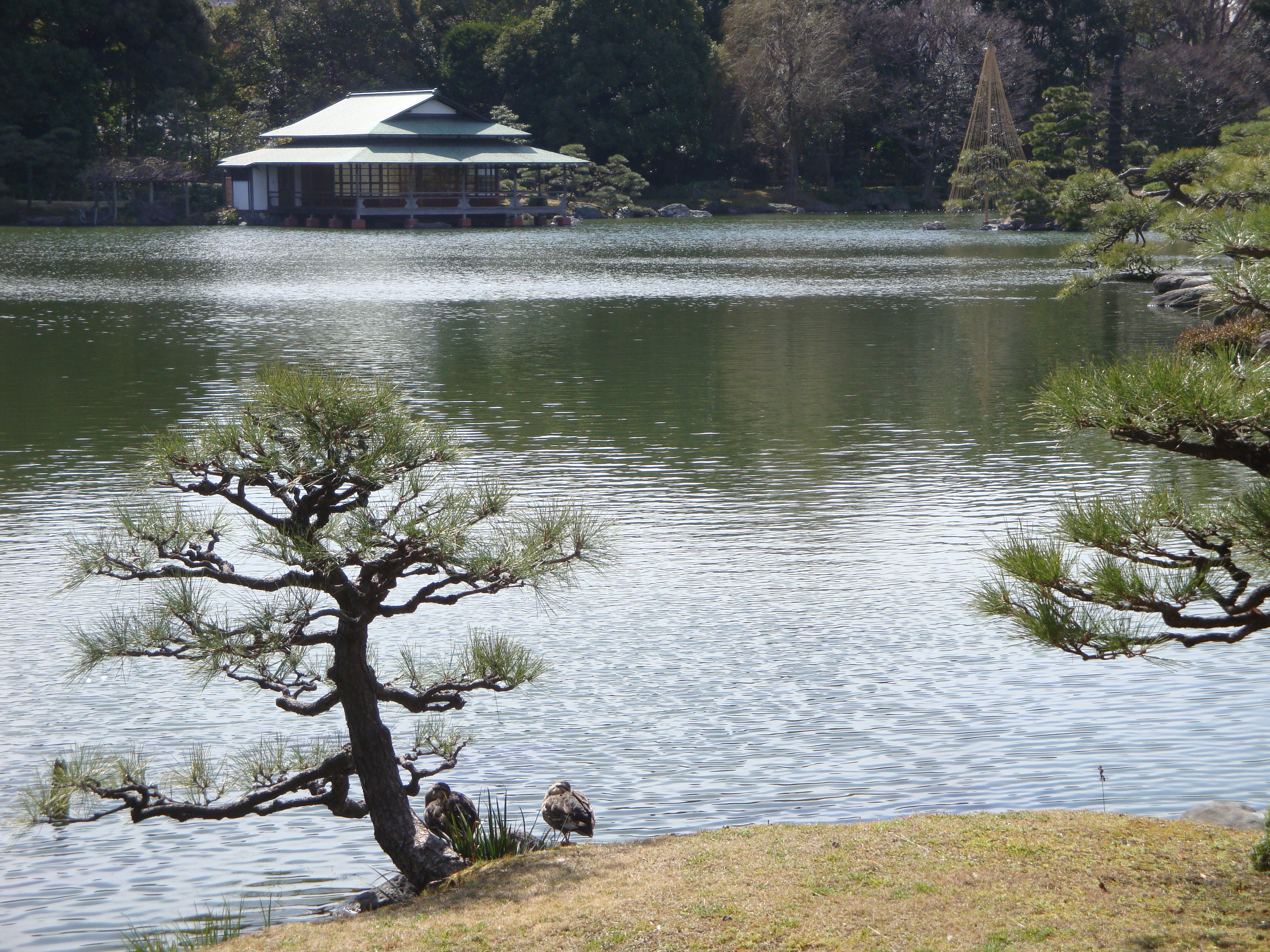 Teahouse